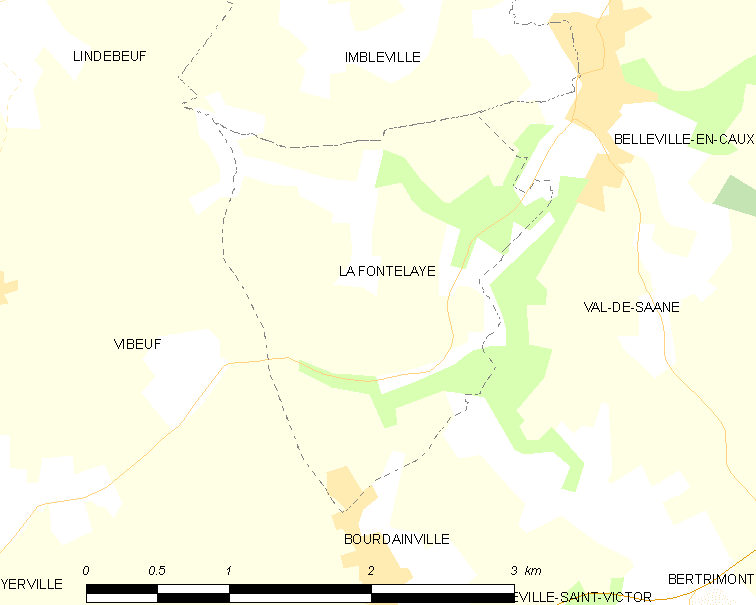 Map of French municipality La Fontelaye